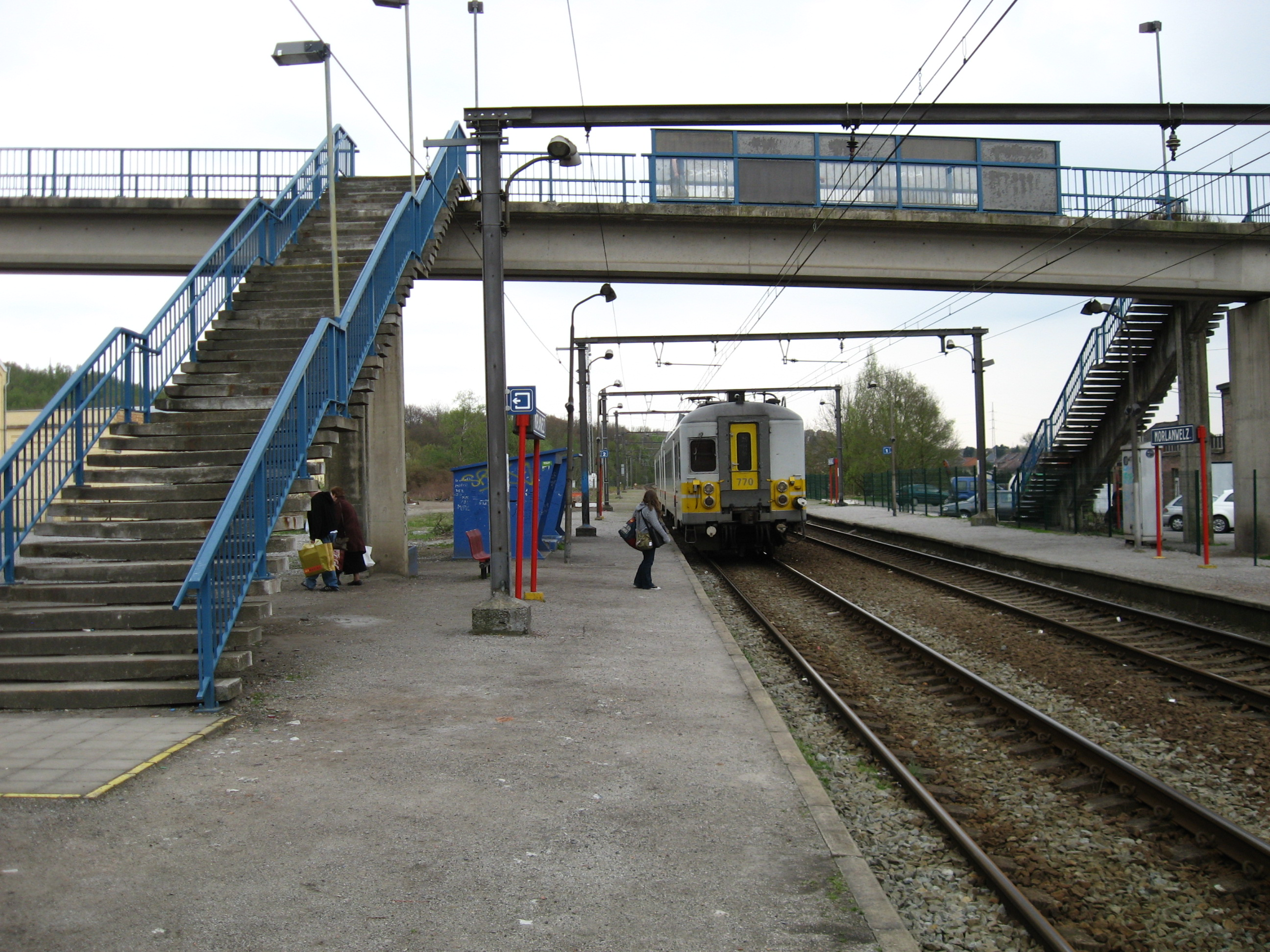 Station Morlanwelz on line 112, between La louviere Sud and Charleroi.